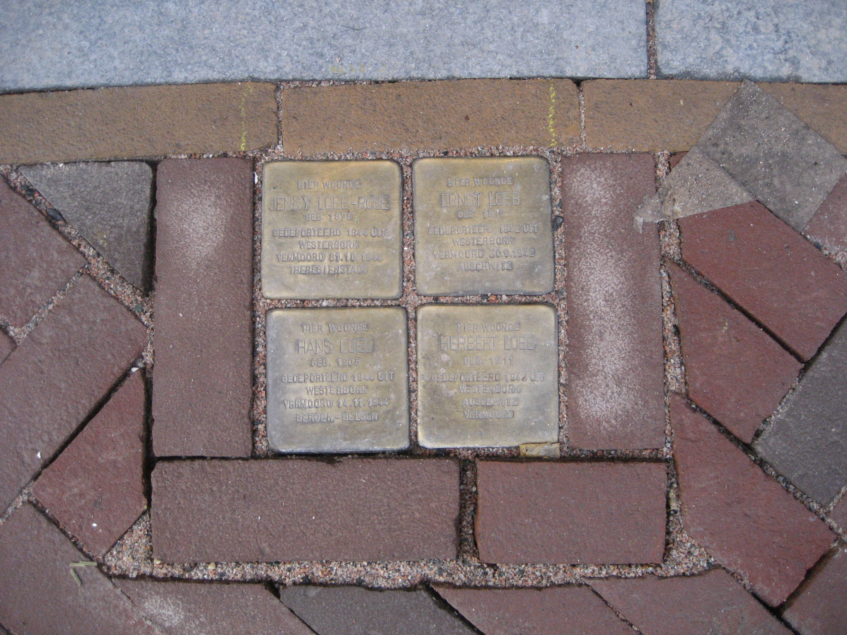 Stolpersteine in Leiden (The Netherlands), Breestraat 161. In remembrance of Jenny Loeb-Rose (1878-1944), Ernst Loeb (1878-1942), Hans Loeb (1905-1944), Herbert Loeb (1911-194X)